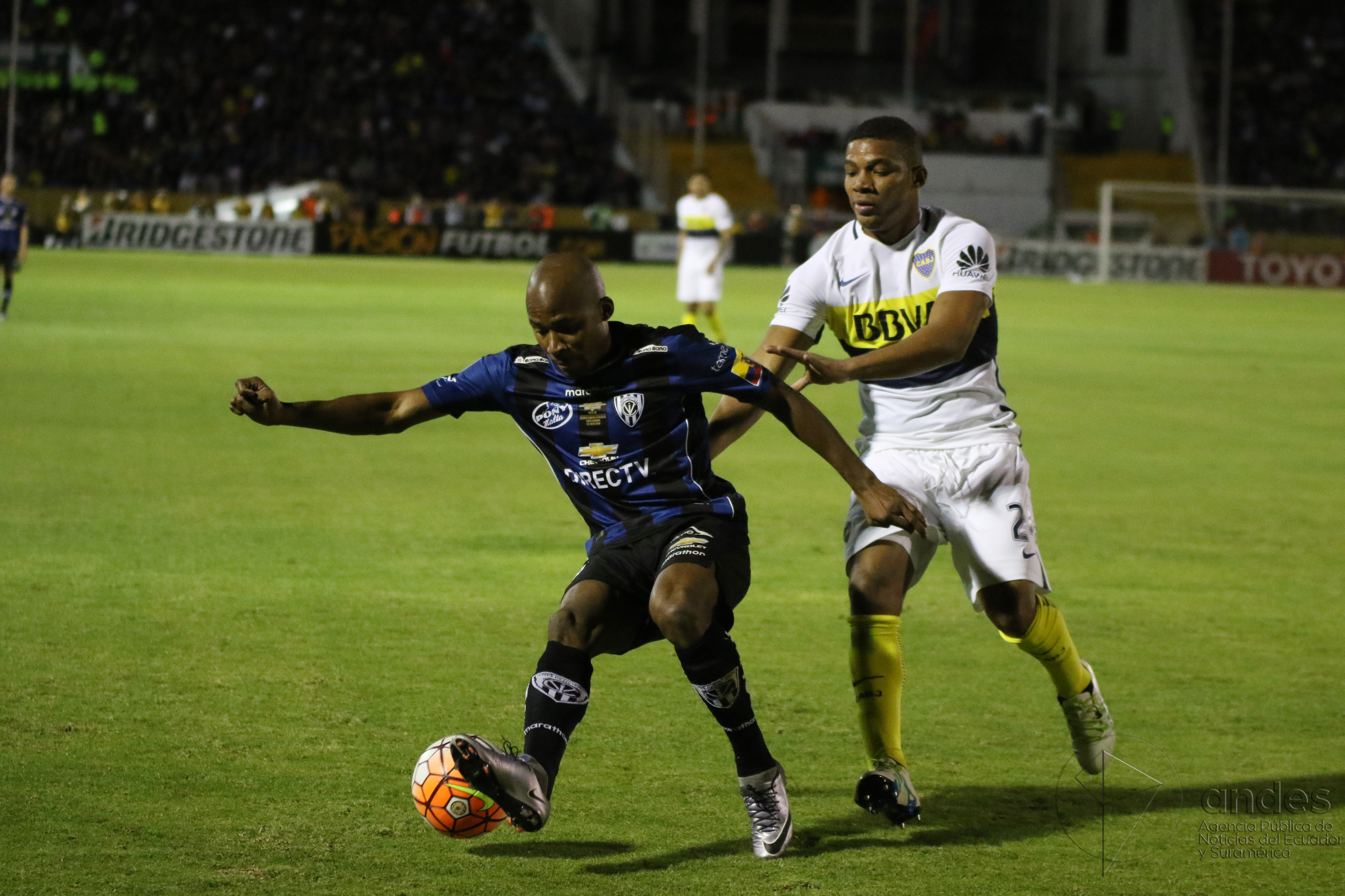 Frank Fabra jugando para Boca Juniors contra Independiente del Valle en Ecuador.